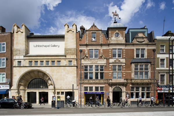 Whitechapel Gallery, Whitechapel High Street, London Borough of Tower Hamlets, London, England.